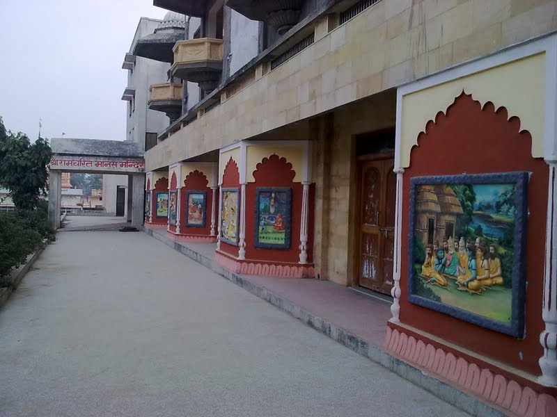 3-D paintings at the entrance of the Manas Mandir in Tulsi Peeth, Chitrakoot, Satna, Madhya Pradesh.